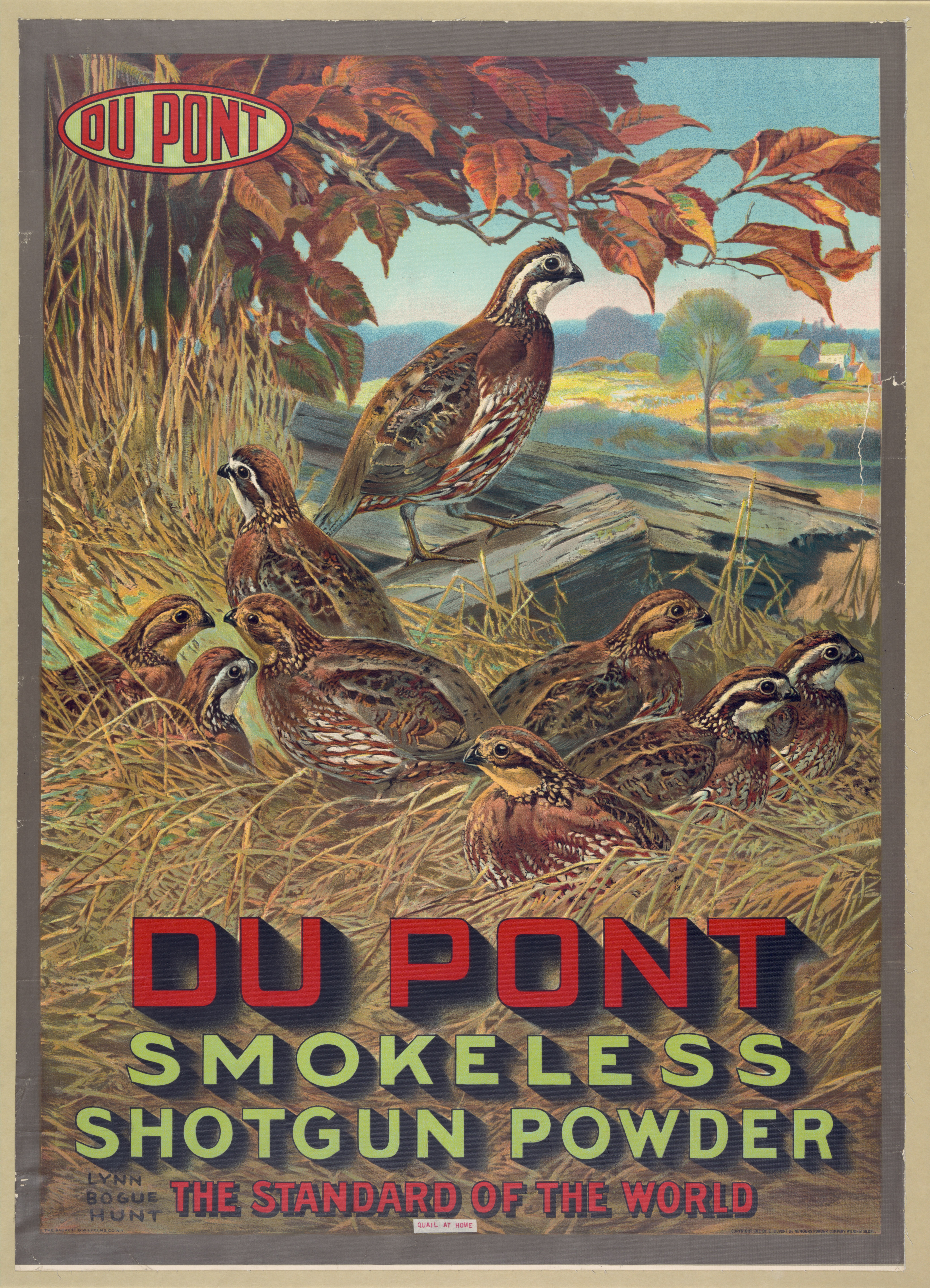 Title: Du Pont smokeless shotgun powder - the standard of the world Abstract/medium: 1 print : chromolithograph.